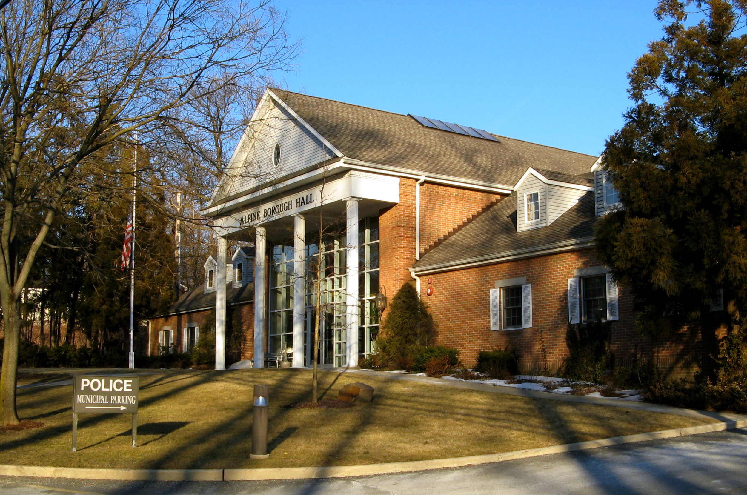 Alpine Borough Hall, Alpine, New Jersey 07620, USA